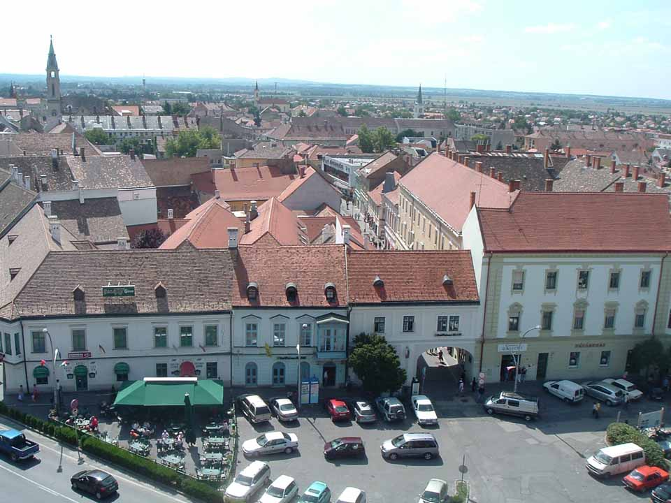 Panorama from the tower of the Main Church in Pápa, Hungary